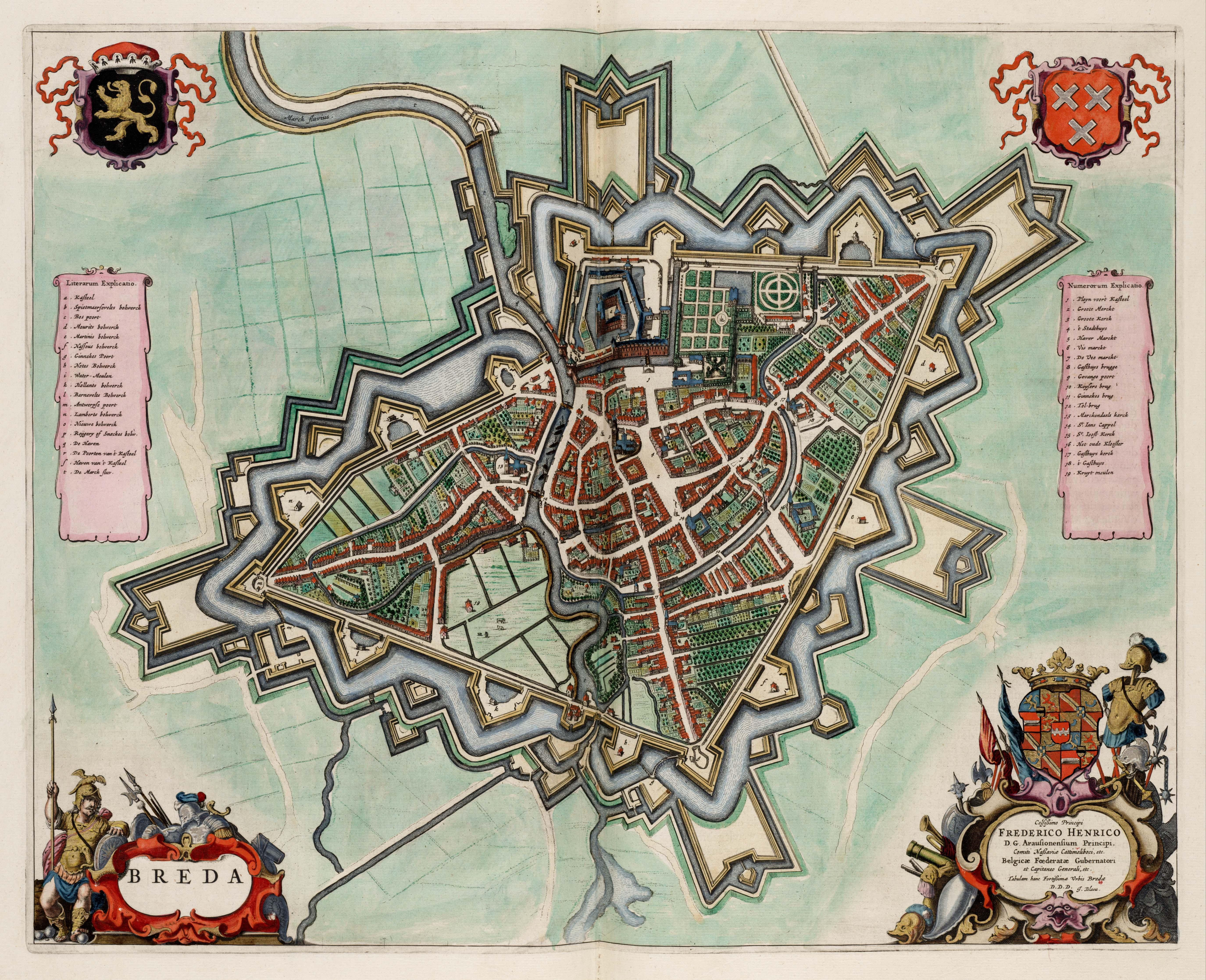 Breda.